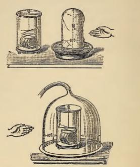 Biometer - an instrument designed by Hippolyte Baraduc and claimed to measure a vital force which is emitted by the human body